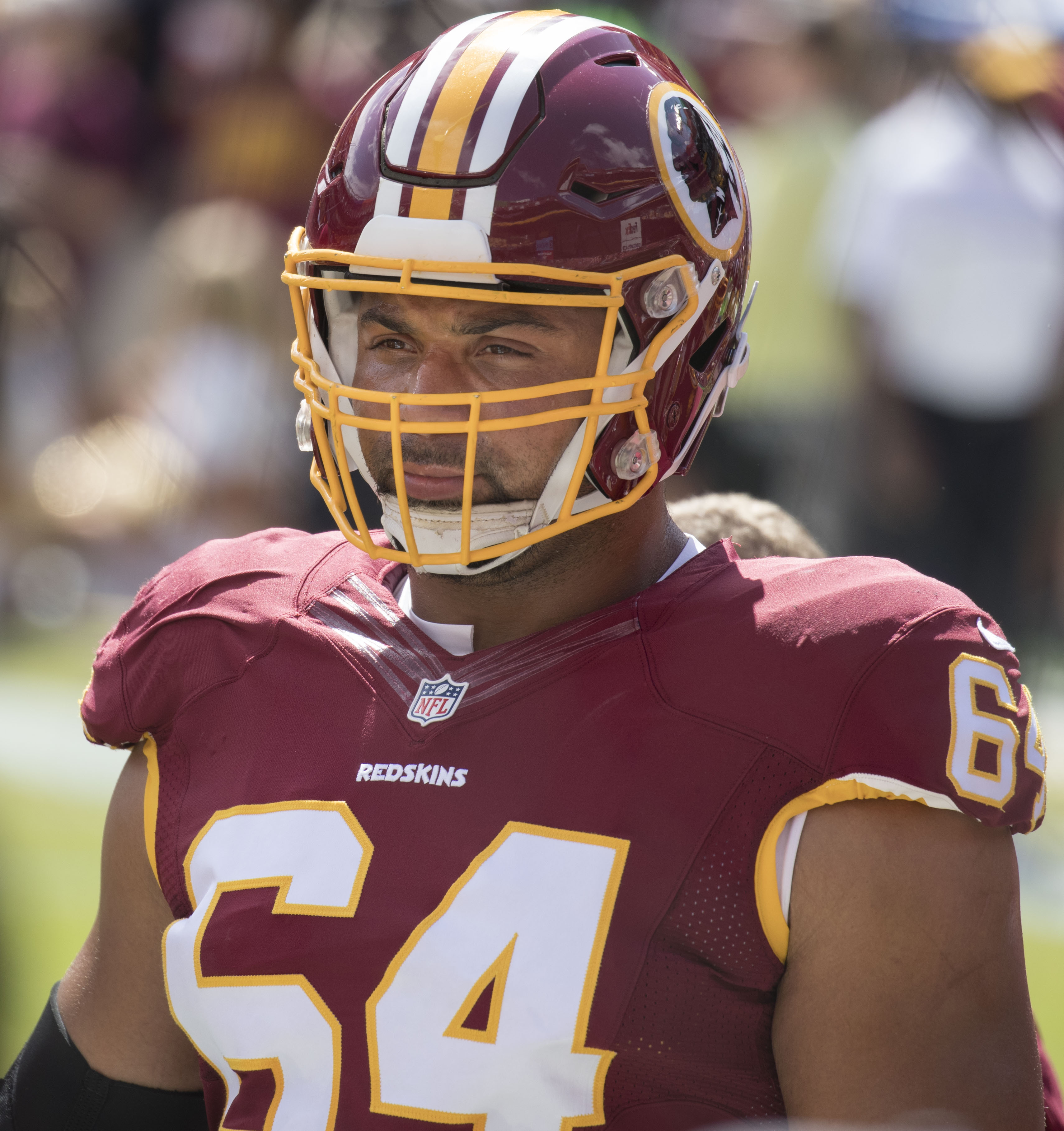 Cowboys at Redskins 9/18/16